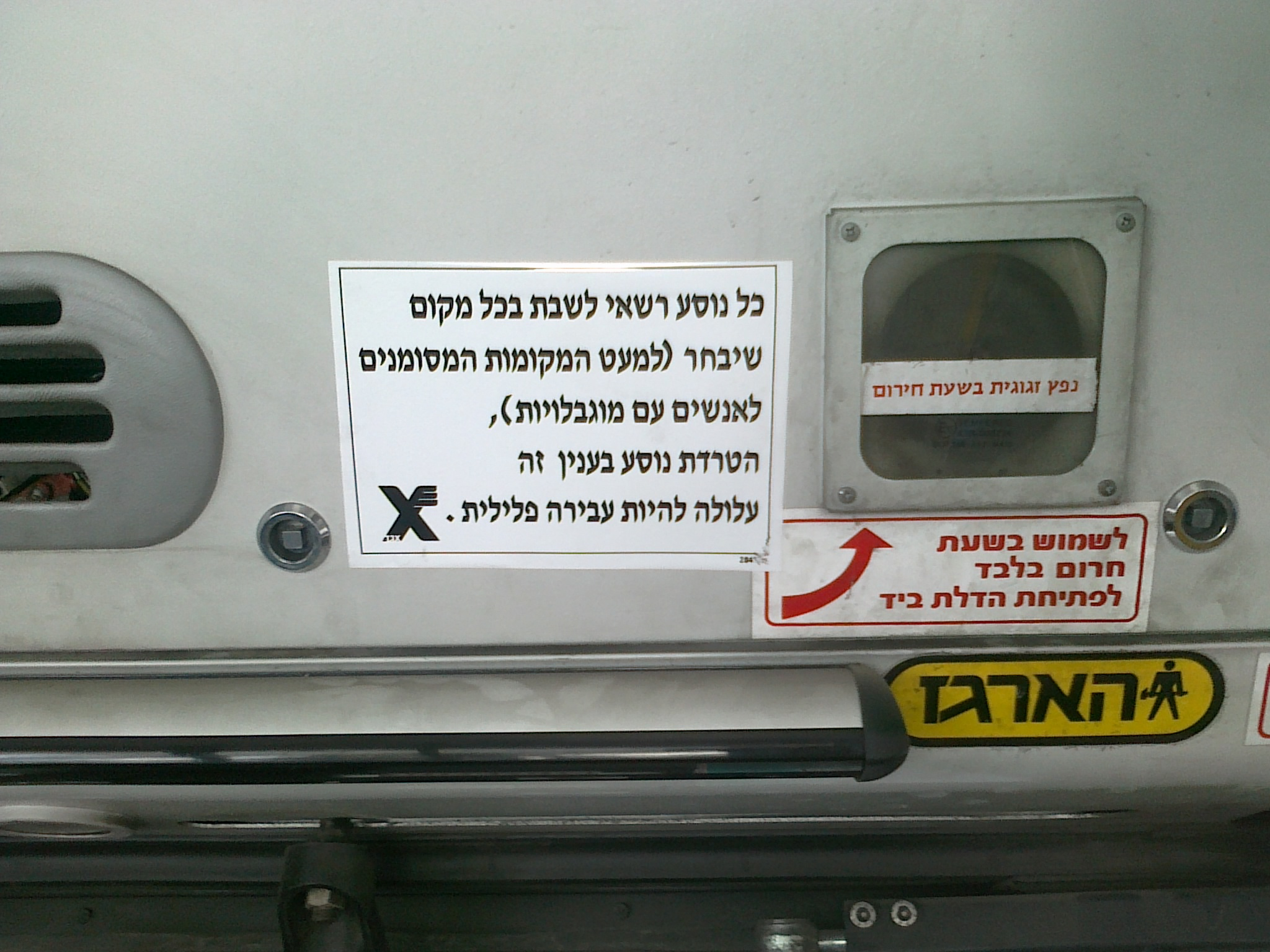 Sticker on board Egged bus in Jerusalem. It reads, "Every passenger may sit wherever he chooses (except seats designated for disabled persons), harassing a passenger in this regard may be a criminal offense."